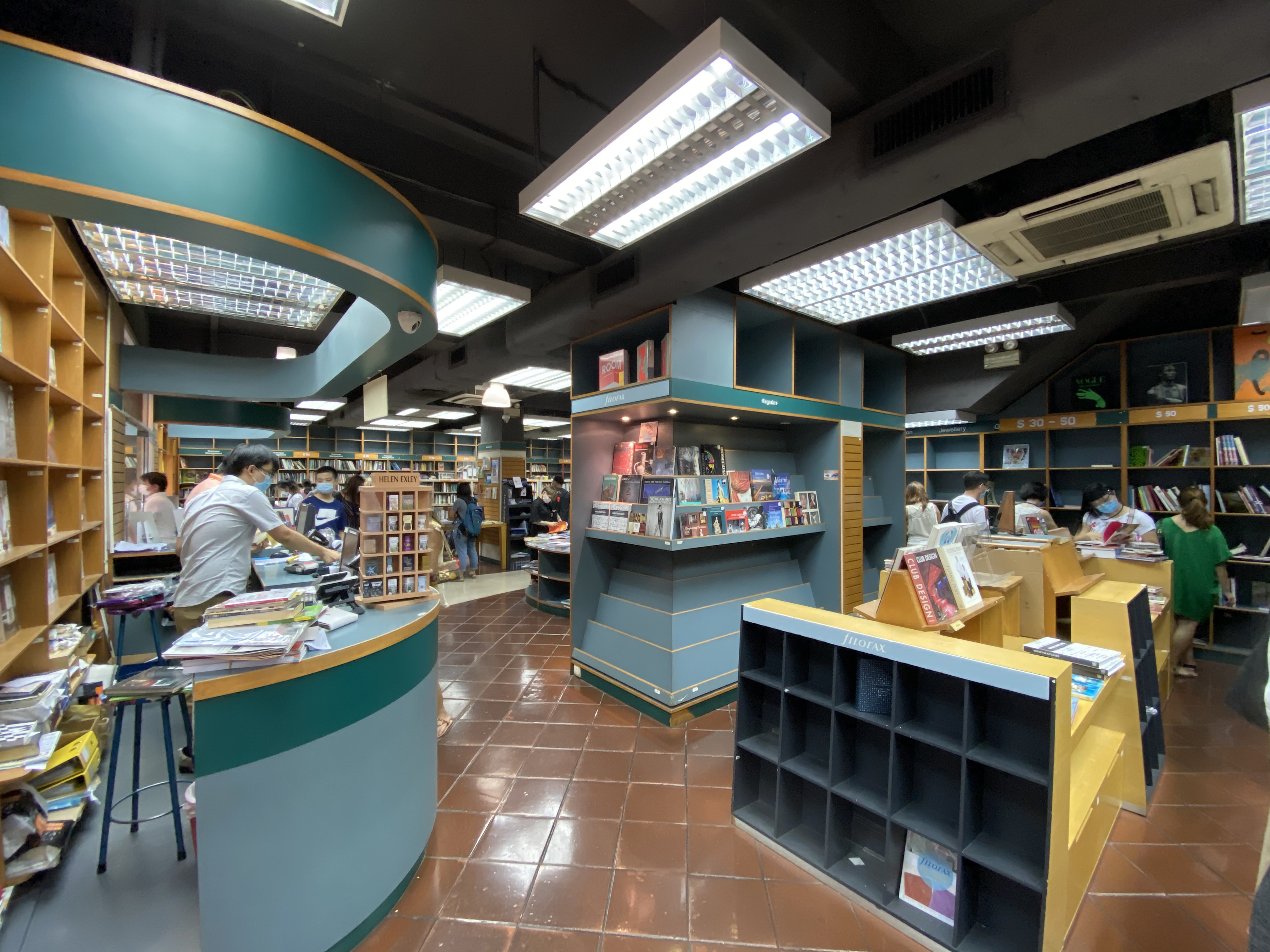 Swindon Book Company 辰衝書店